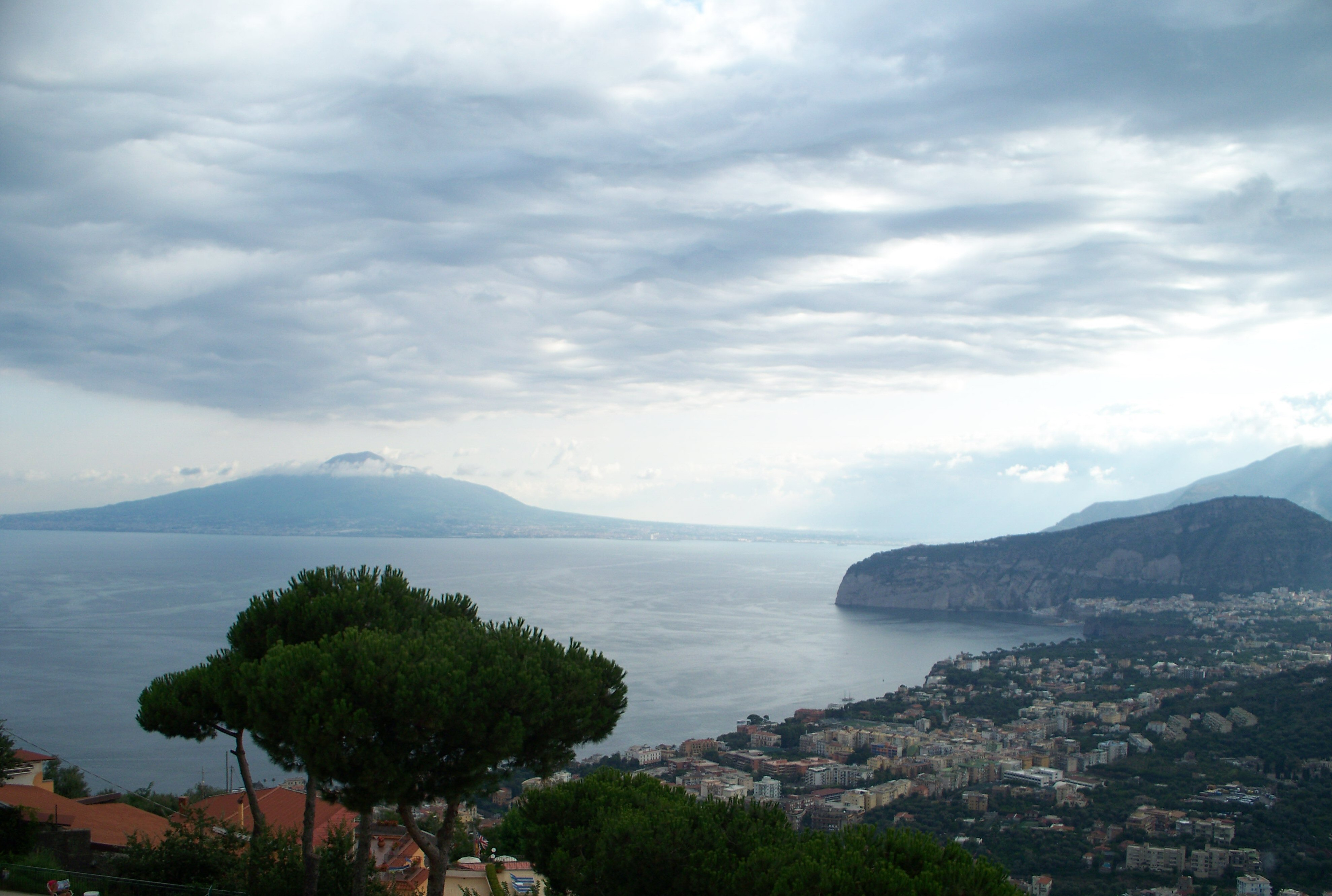 Vesuvius overlooking Sorrento and the Bay of Naples.